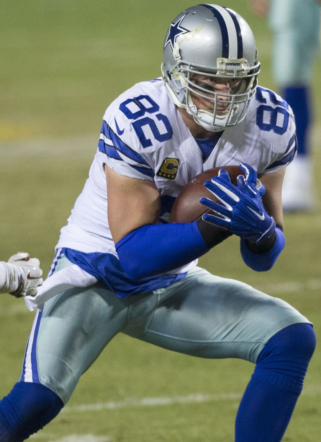 Cowboys at Redskins 12/7/15